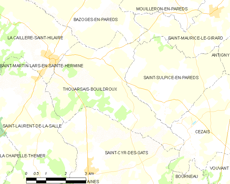 Map of French municipality Thouarsais-Bouildroux